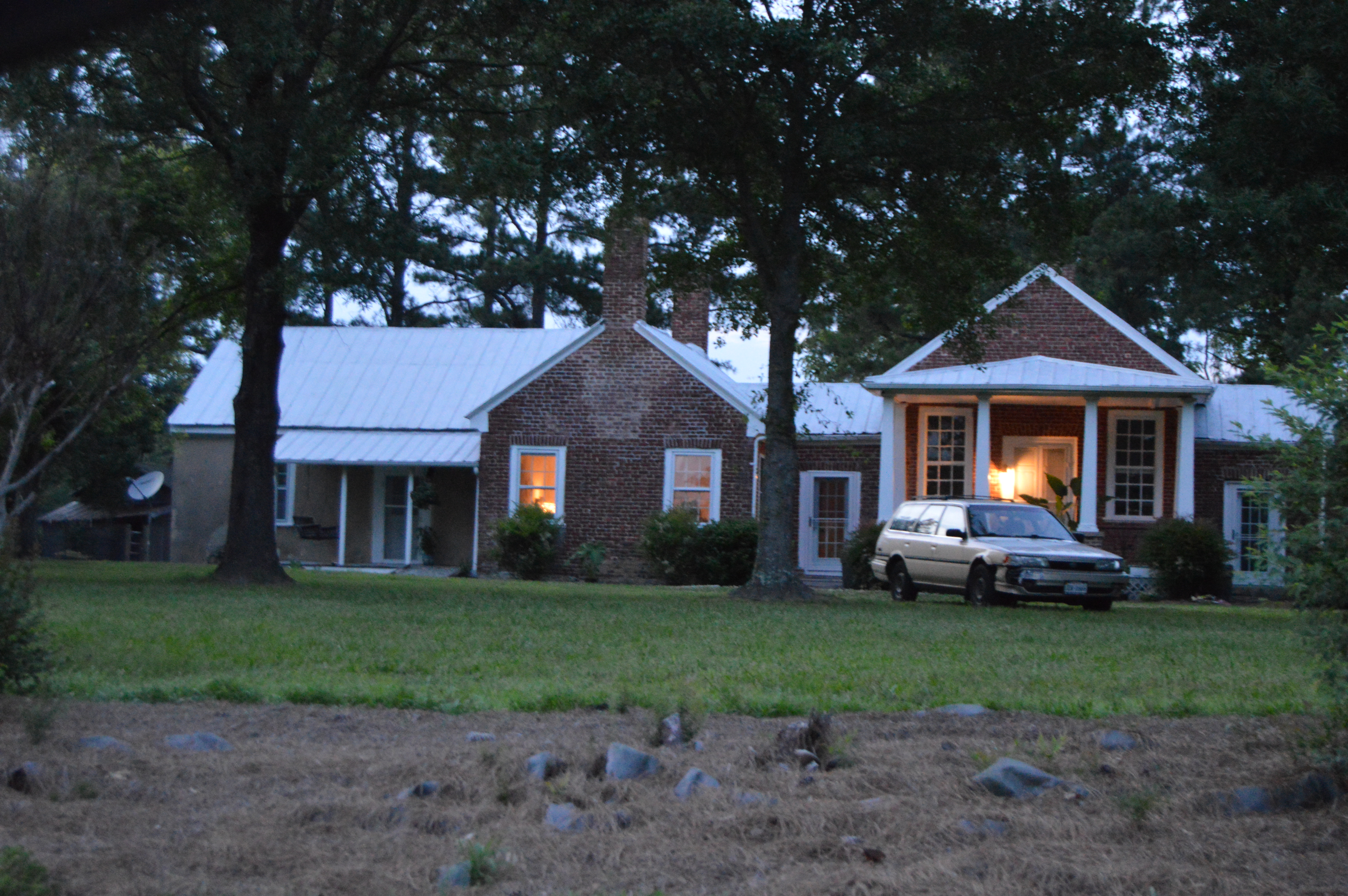 Front of Hobson's Choice, located on Old Bridge Road east of Alberta in Brunswick County, Virginia, United States.